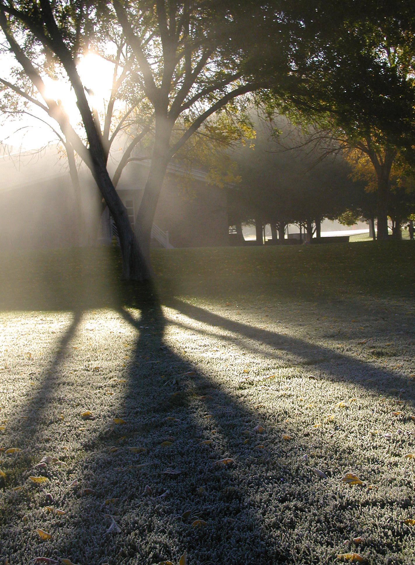 Fog filters through a thin layer of fog on an early winter morning. Photo taken in Albuquerque, New Mexico.